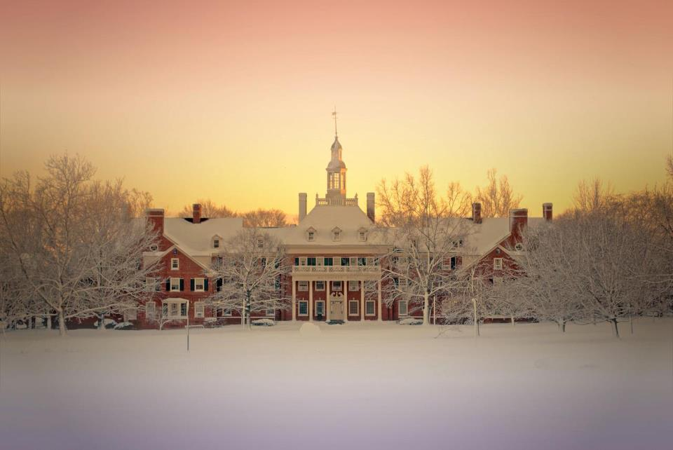 Photo of MacCracken Hall in Winter